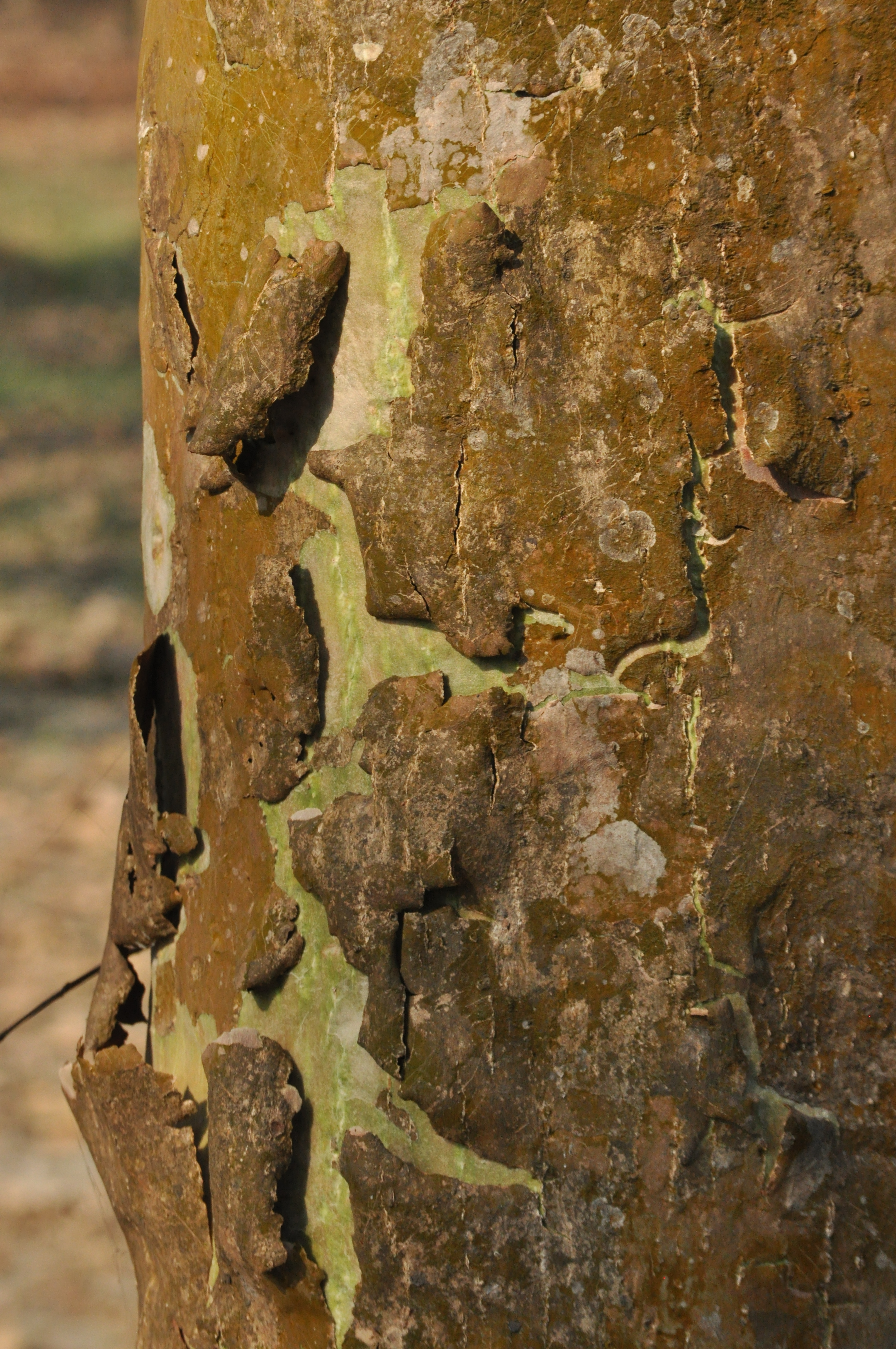 The bark of Terminalia arjuna (অর্জুন) is found in Bana Bitan, Kolkata, West Bengal,India.